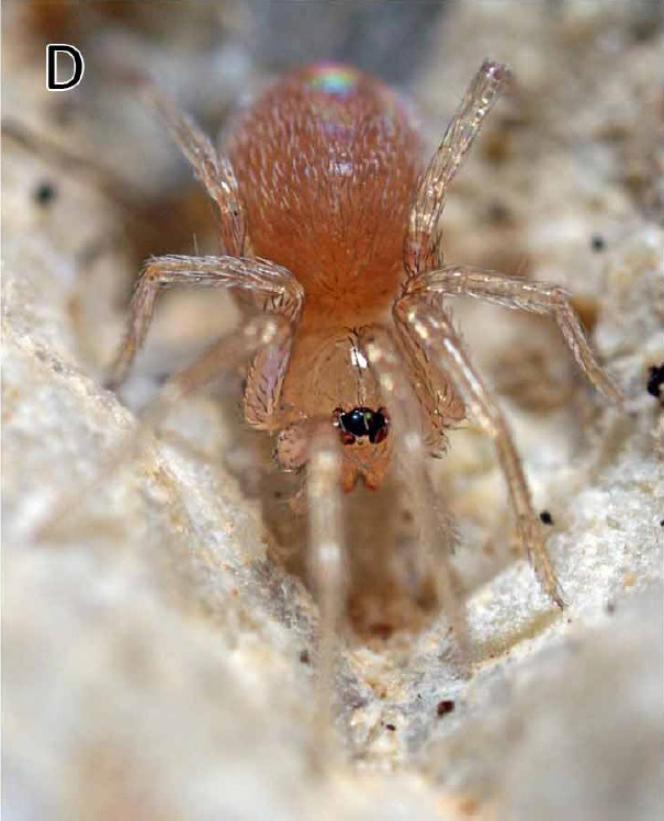 Tapinesthis inermis, female